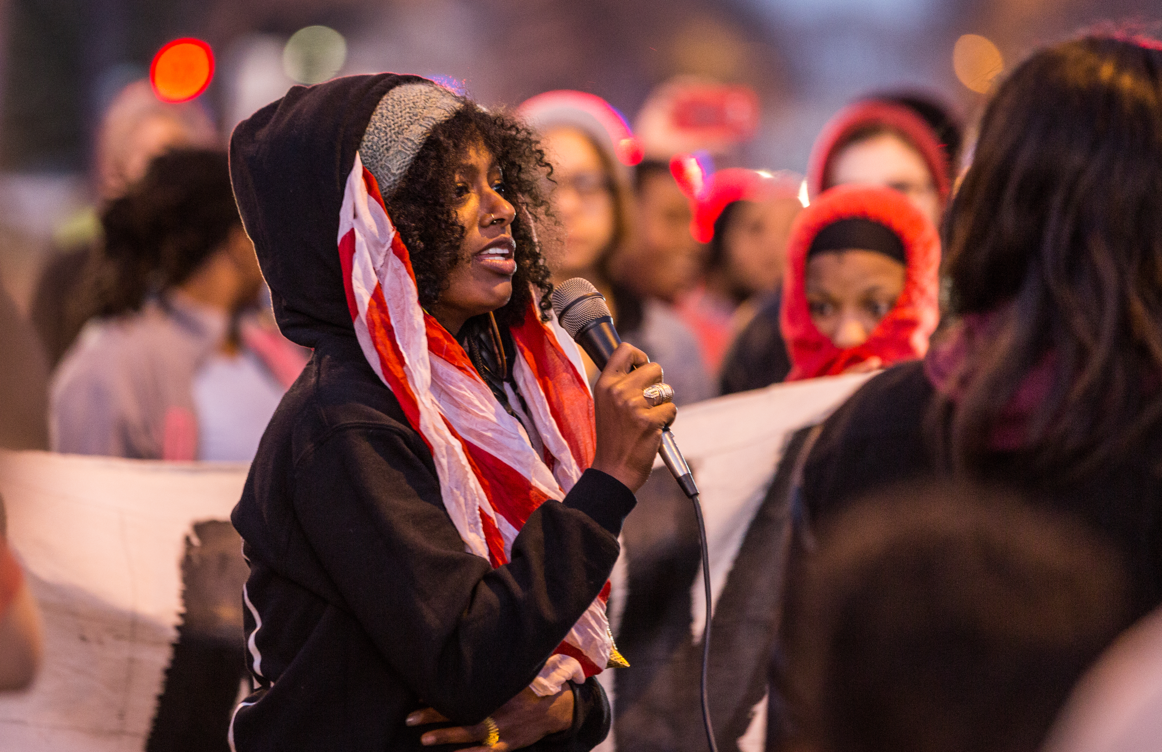 Jayanthi Kyle sings outside the Minneapolis Police Department 4th precinct building following the officer-involved shooting of Jamar Clark on November 15, 2015. Photo: Tony Webster Creative Commons: You can use this photo with attribution. All photos from November 15, 2015 community and police press conferences, protest, and community listening session.